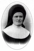 Eugenia Mackiewicz